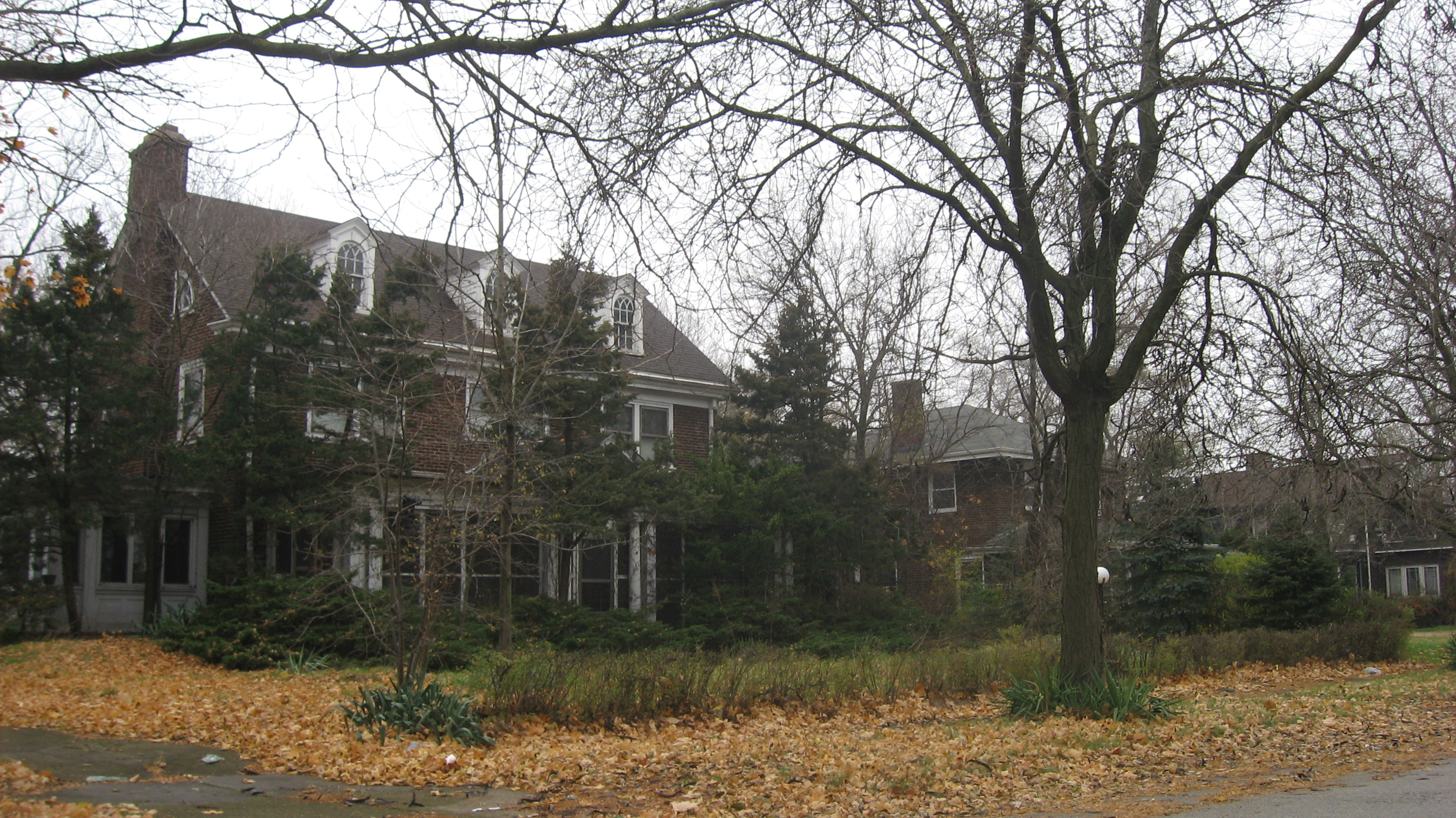 Houses at 640 and 620 Lincoln Street in Gary, Indiana, United States. This block is part of the Lincoln Street Historic District, a historic district that is listed on the National Register of Historic Places.